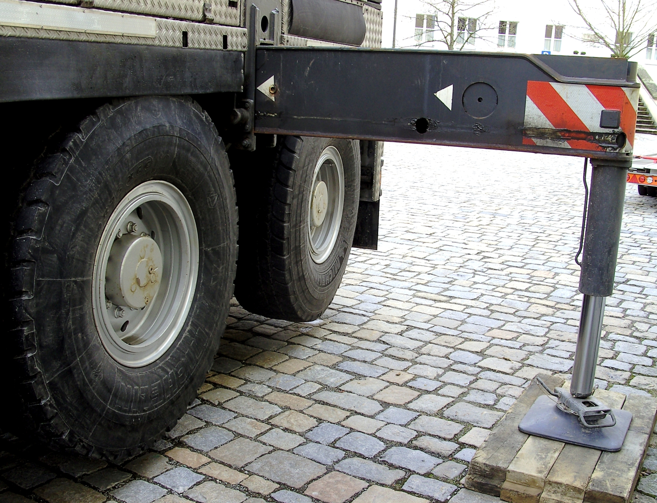 Extended support leg of a FAUN mobile crane.